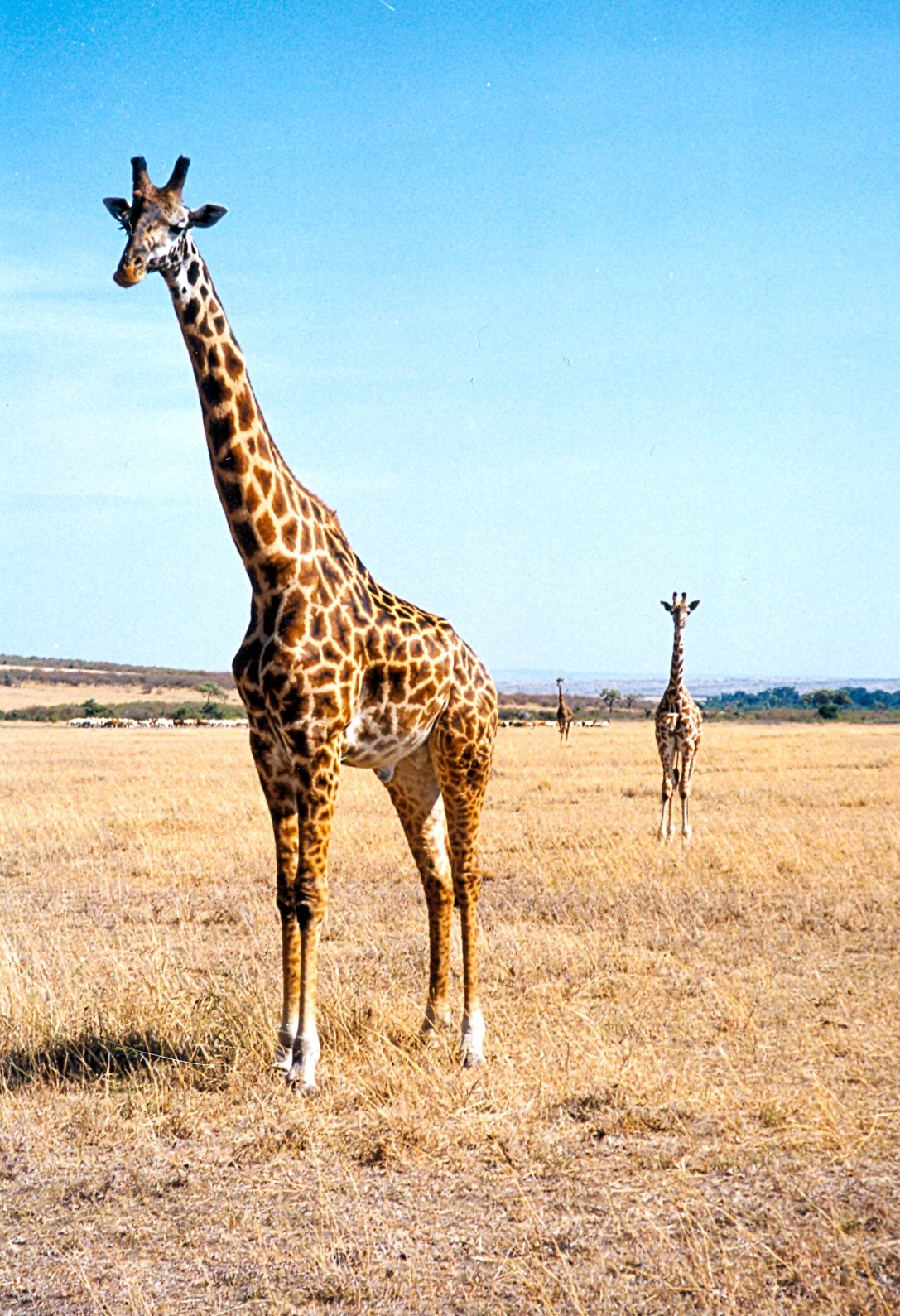 A Masai Giraffe in Masai Mara reserve, Kenya.